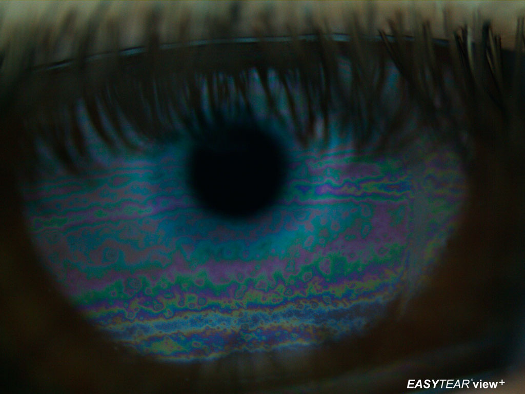 Pattern lipidico con lente a contatto RGP